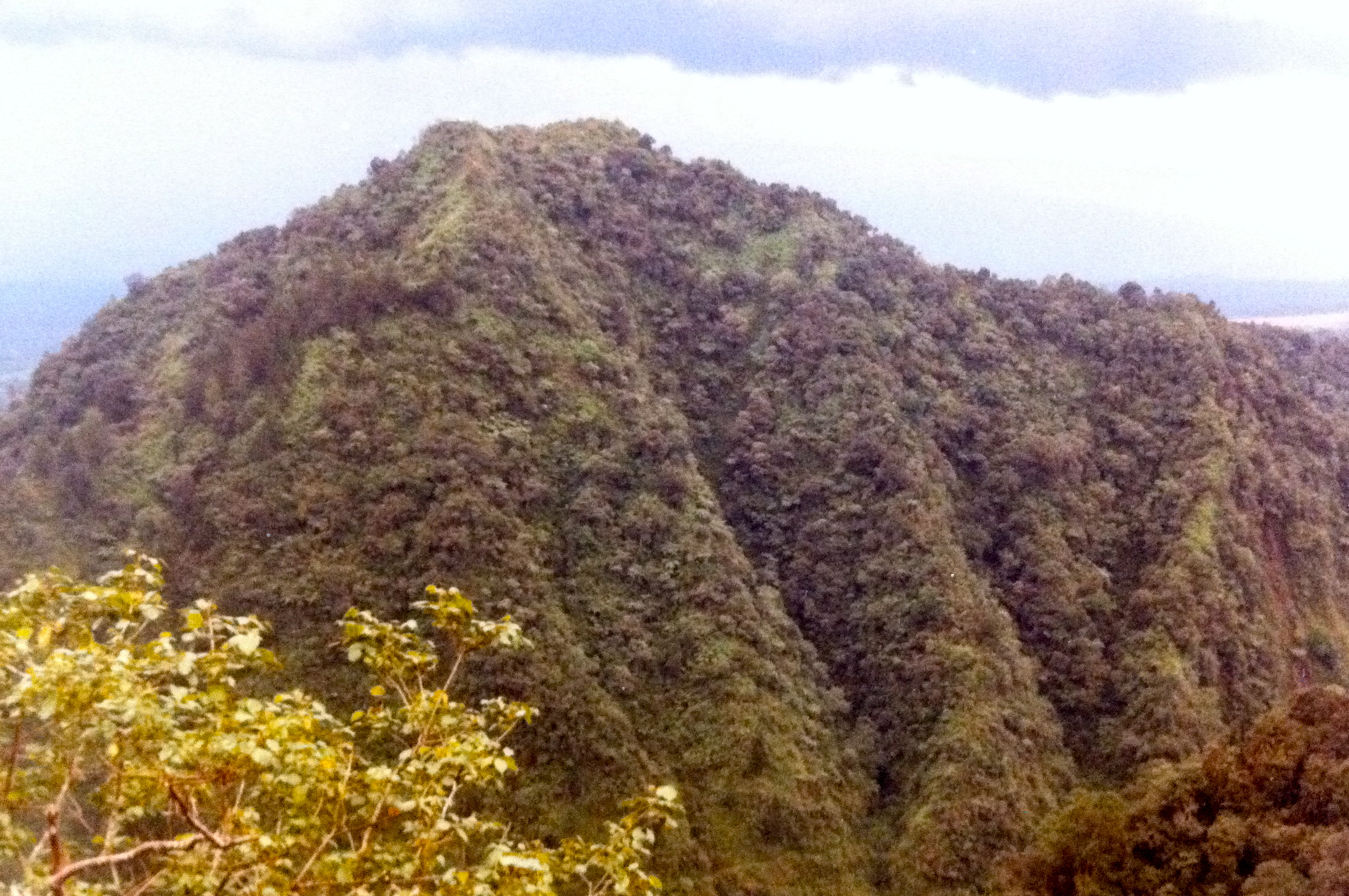 Gunung Turgo, Central Java - from Plawangan - copy of print taken in 1980's